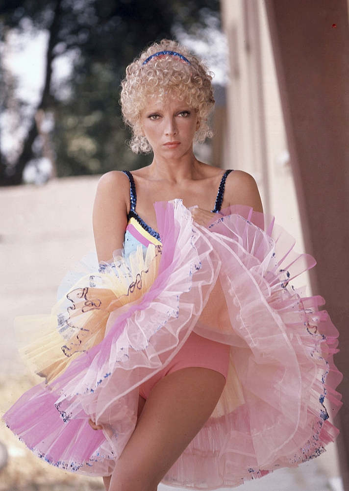 The italian actress Mariangela Melato acting the role of a dancer in the episode 'Air' of the movie 'Di che segno sei?'. She raises a tulle skirt. Marina di Ravenna (Italy), 1975.